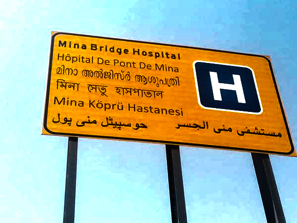 Mina_hospital